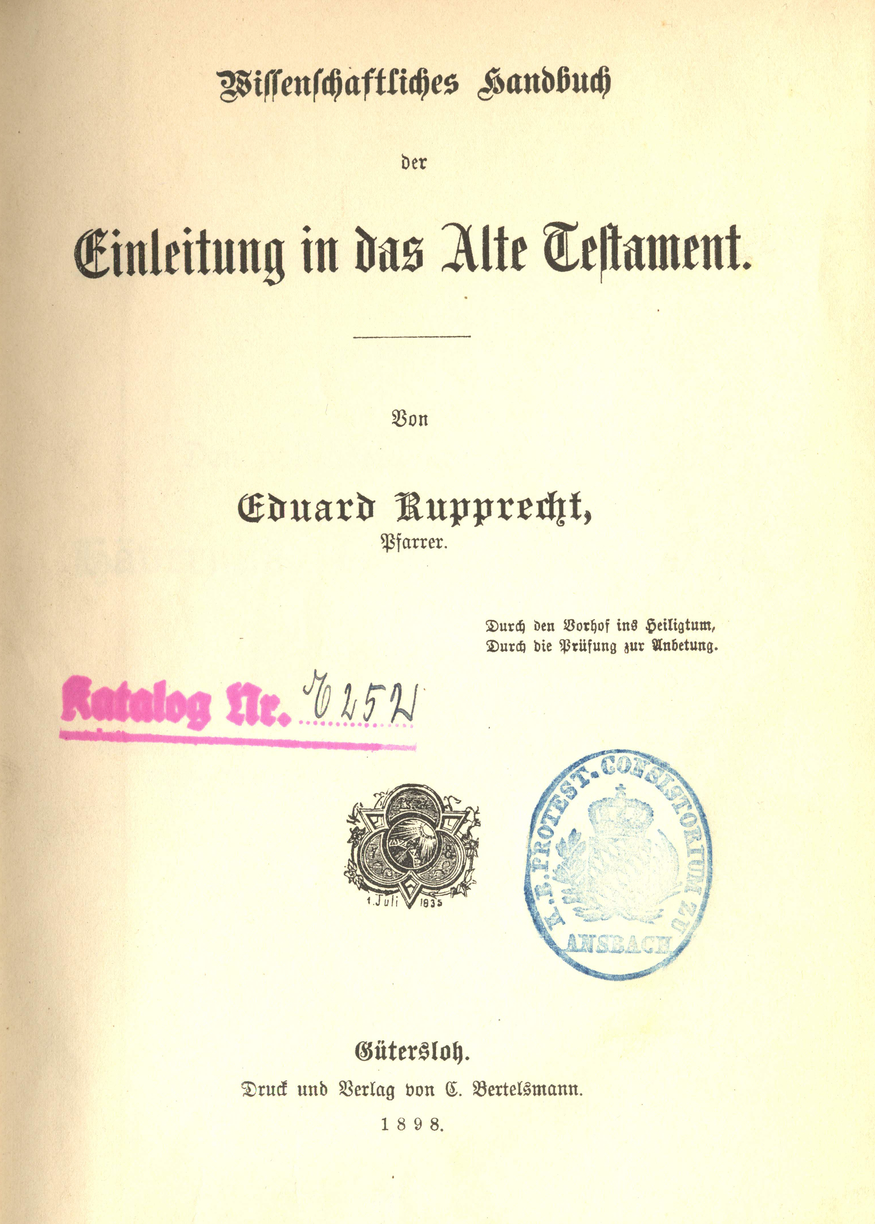 Title page of Eduard Rupprecht's Old Testament Introduction (1898).